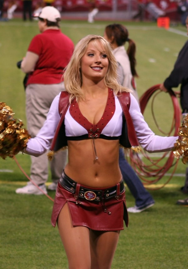 Cheerleader for the San Francisco 49ers football team